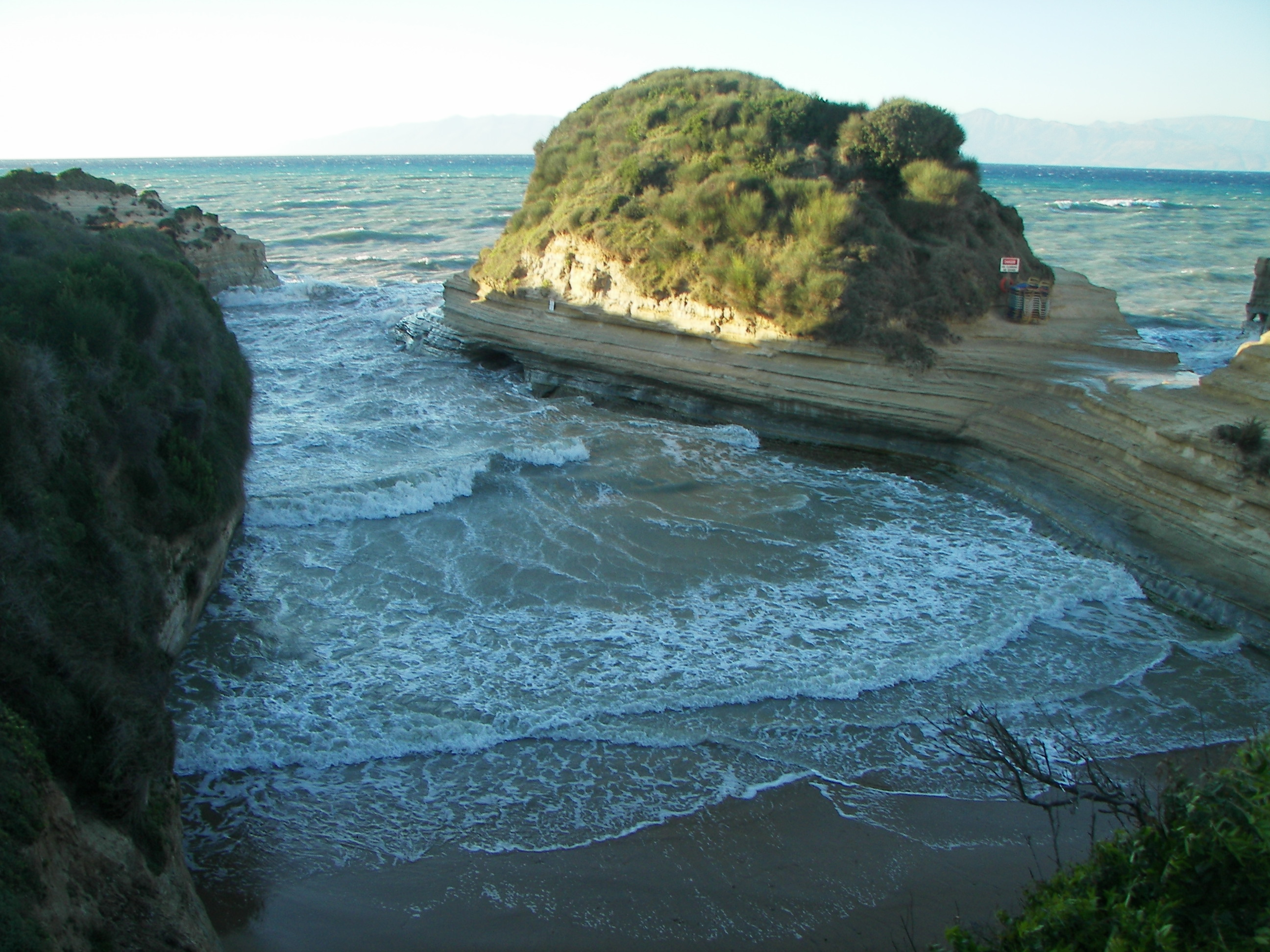 I am the author. Dr.K. 15:28, 6 September 2006 (UTC)